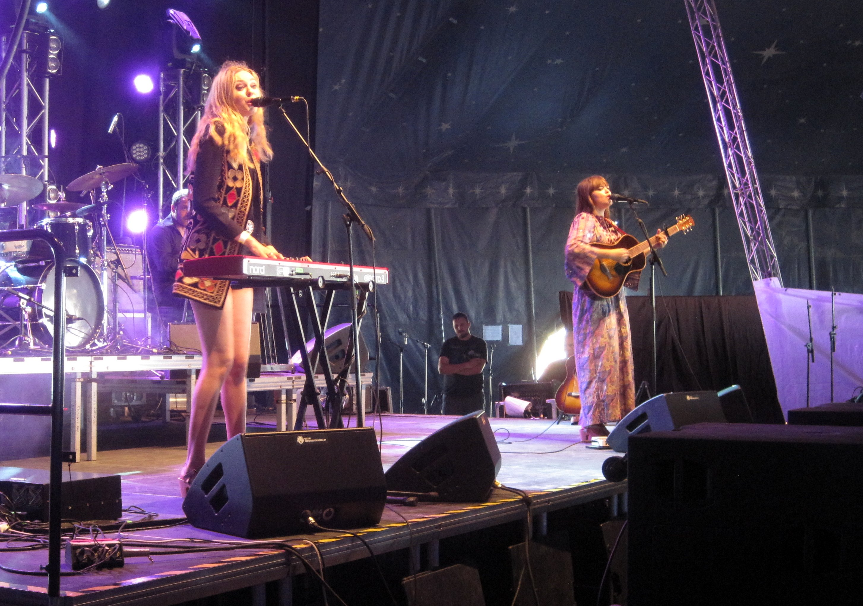 First Aid Kit at the Qstock 2013 festival in Oulu.